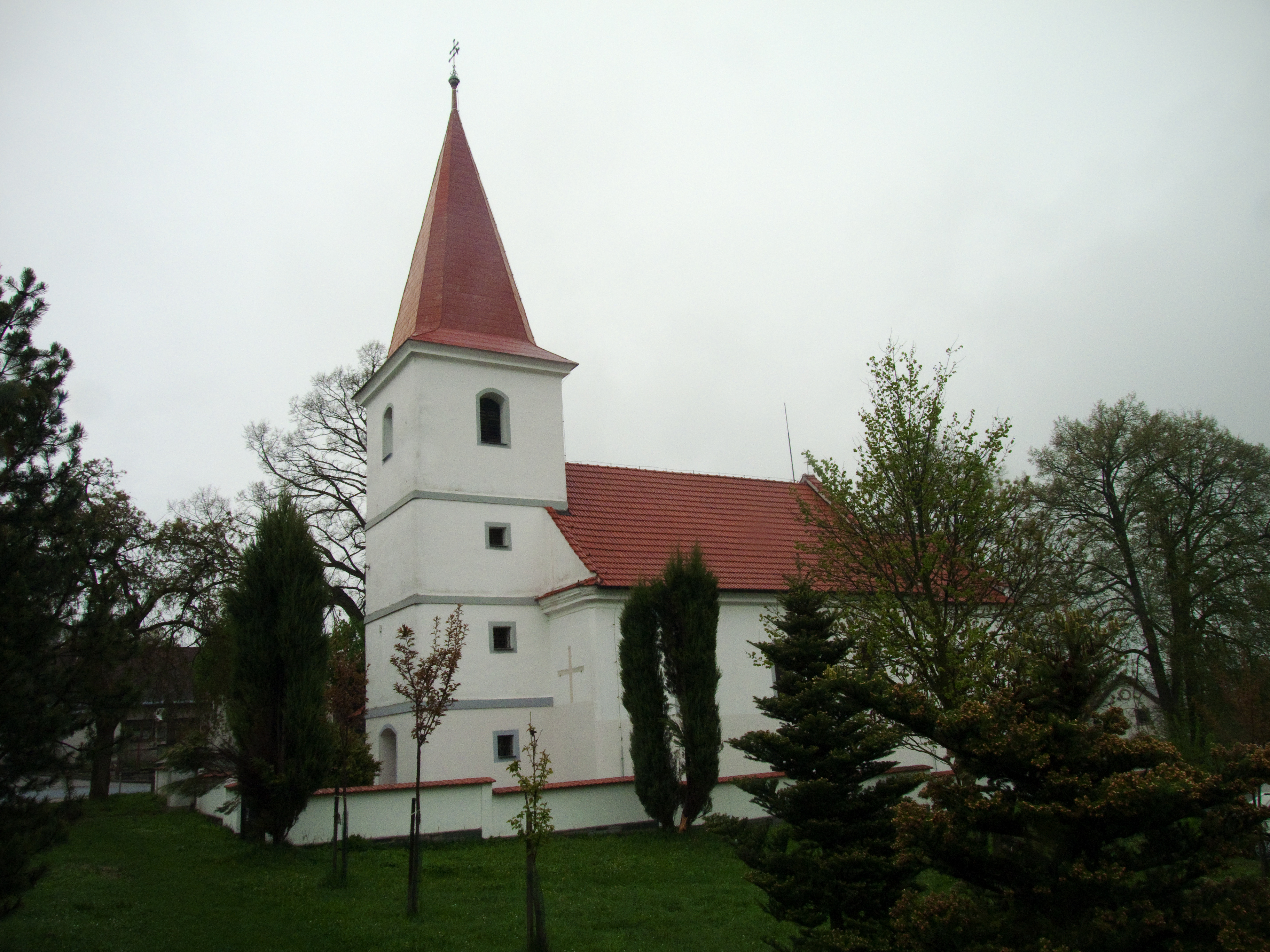 Church of the Virgin Mary Birth in Hlasivo, Tábor district, Czech Republic